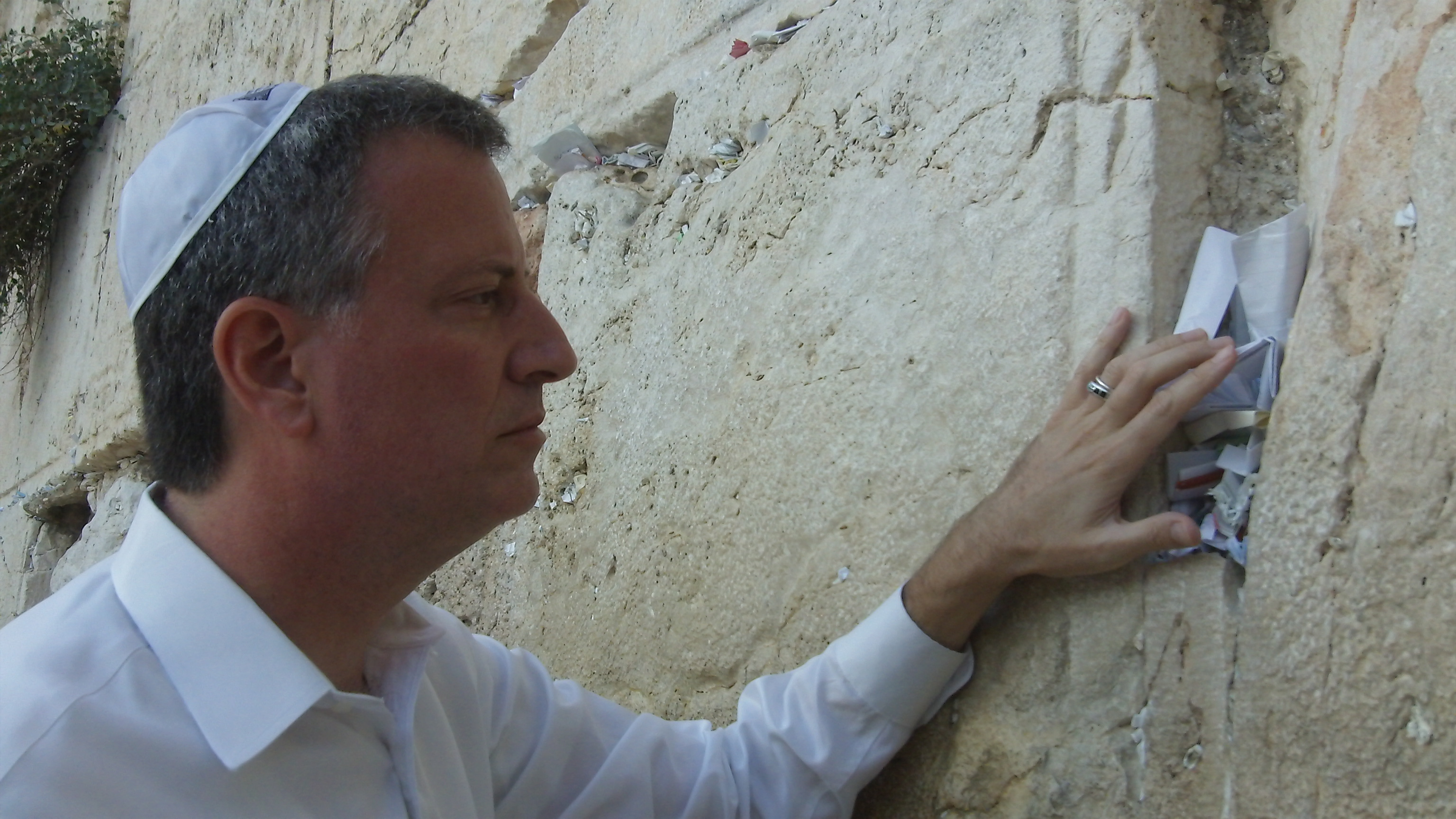 Public Advocate de Blasio leaving a prayer at the Western Wall in Jerusalem. (Original description from Flickr.)